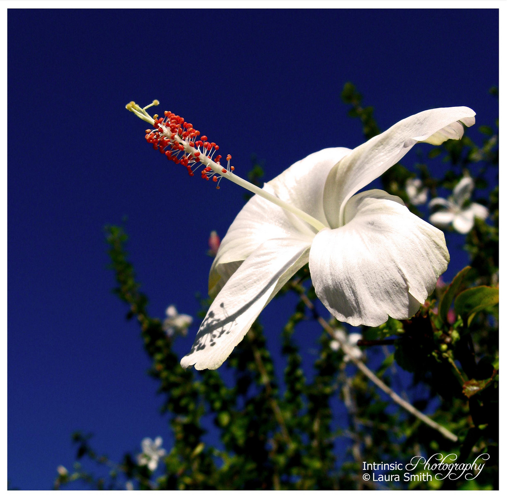 Hibiscus arnottianus subsp. immaculatus. A white hibiscus flower at my Grandfather's property in Bundaberg.